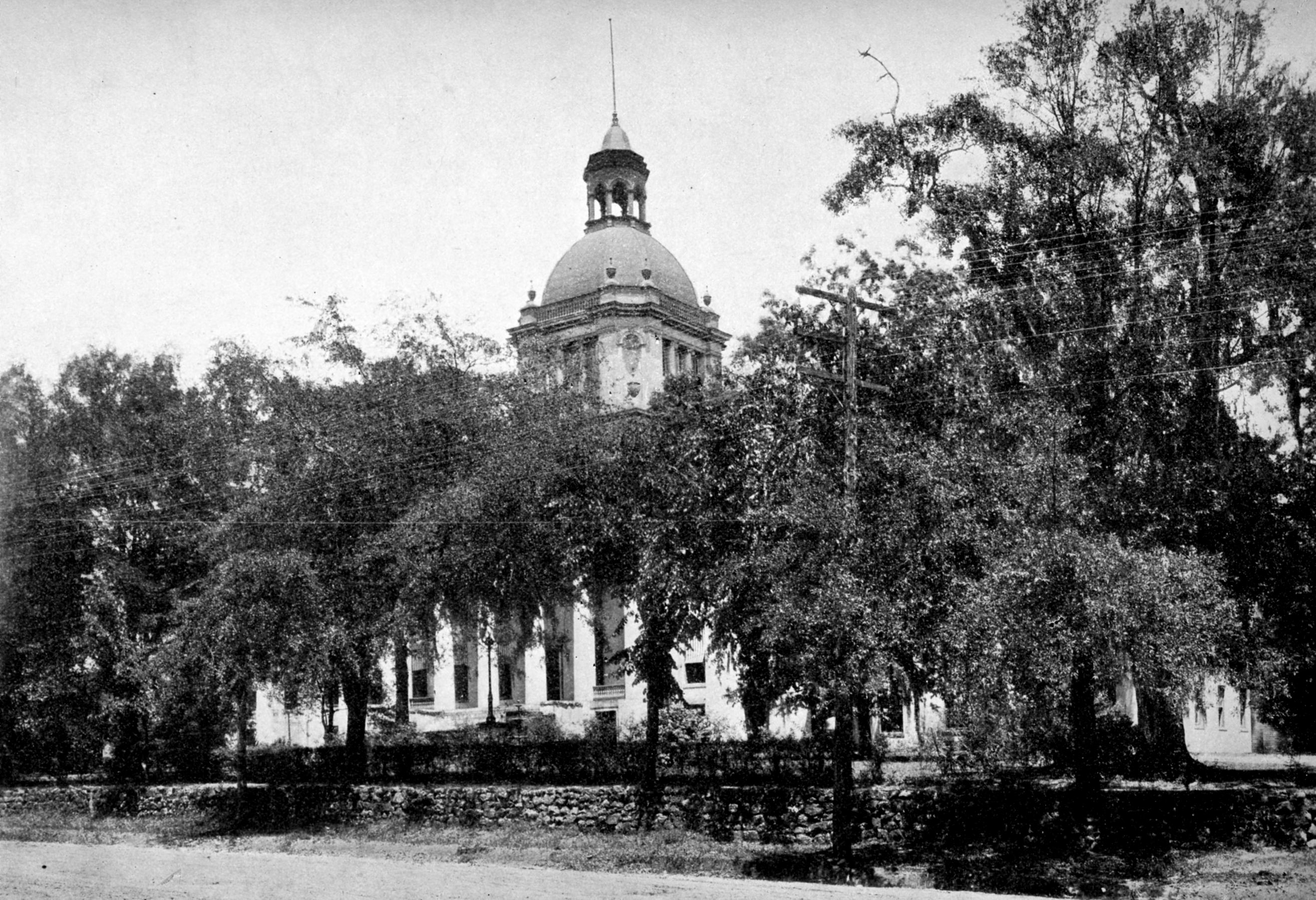 Capitol Building, Tallahassee FL, about 1912 (note the numerous telephone lines, and the striped awnings visible at a few windows)